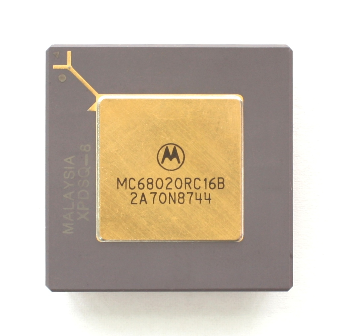 CPU Motorola MC68020